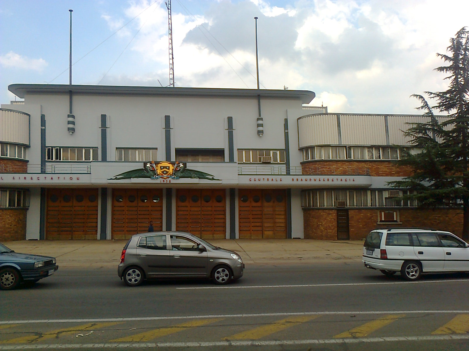 Springs Fire Station, good example of the Art Deco buildings in Springs